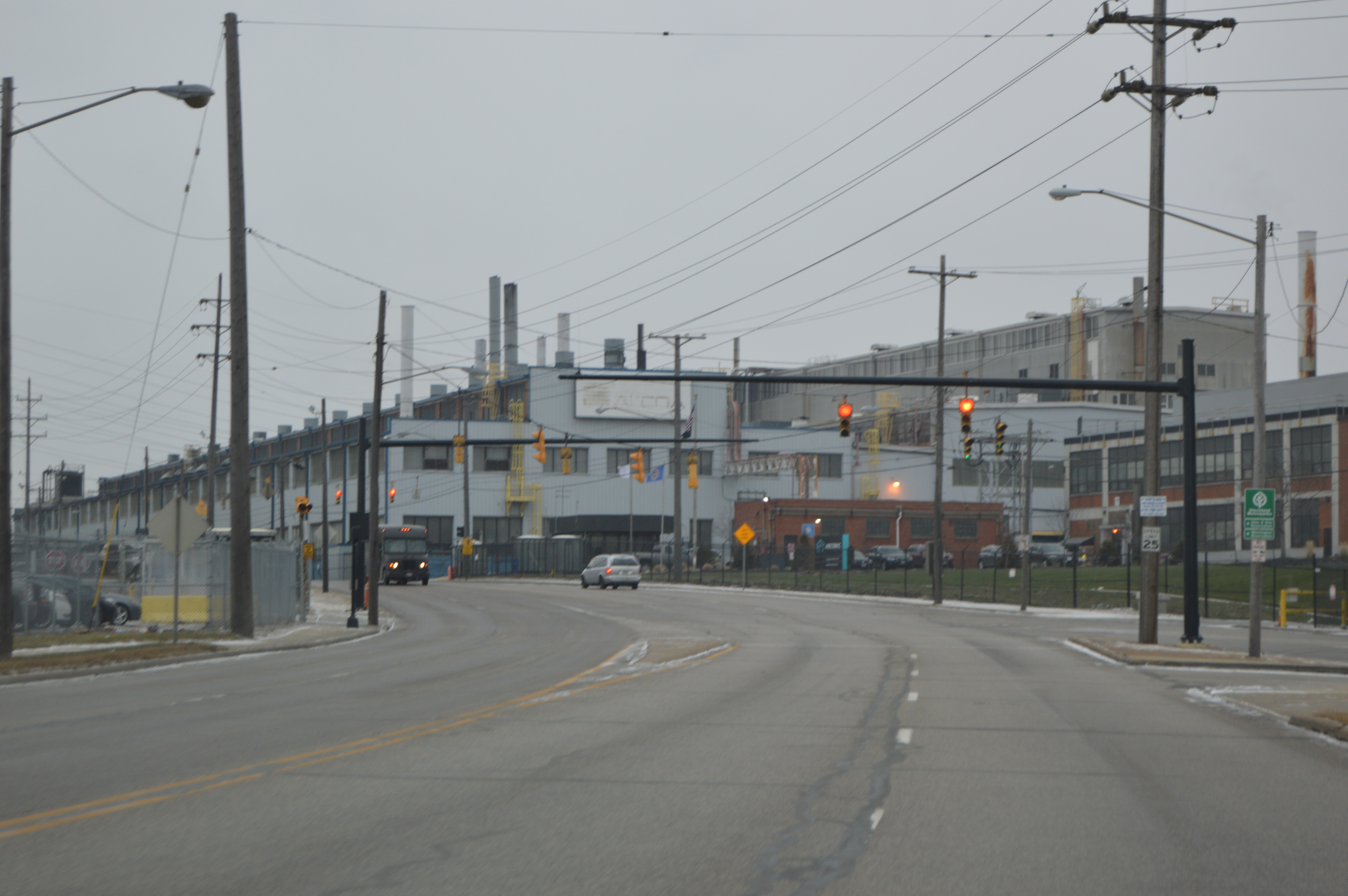 Industrial facilities on Harvard Avenue, seen from the Denison Harvard Bridge, in Cuyahoga Heights, Ohio, United States.